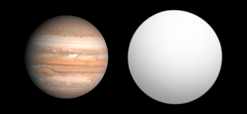 Comparison of best-fit size of the exoplanet HAT-P-19 b with the Solar System planet Jupiter, as reported in the Open Exoplanet Catalogue[1] as of 2010-09-30. ↑ Open Exoplanet Catalogue (2010-09-30). Retrieved on 2010-09-30.